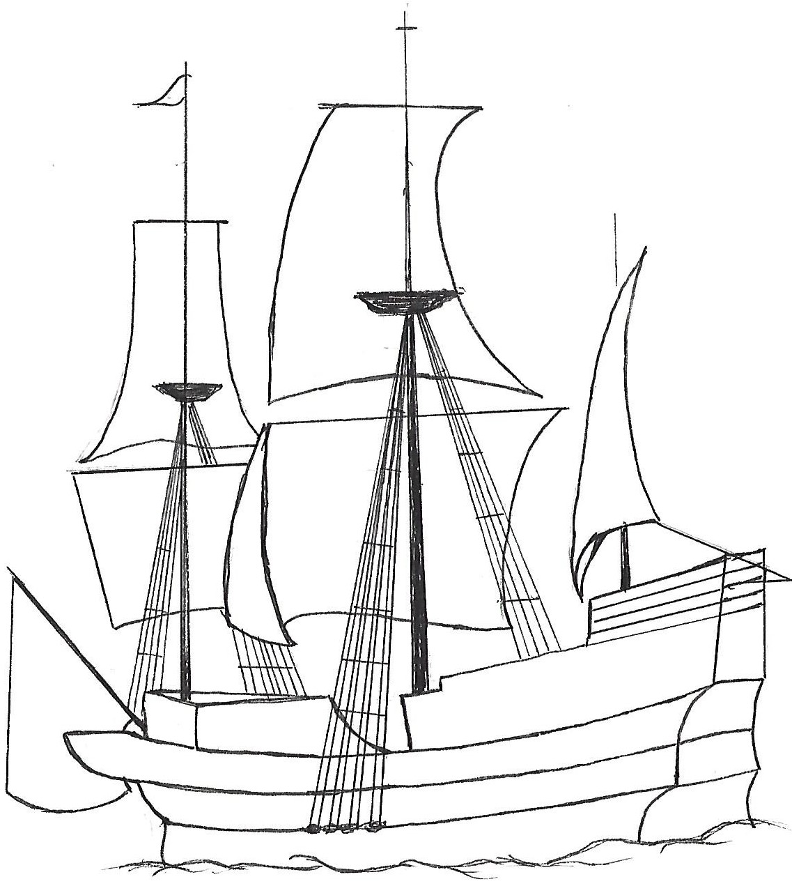 Drawing of the Mayflower by Linda Karklis